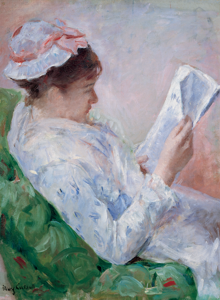 Mary Cassatt (American, 1844–1926), Lydia Reading the Morning Paper (No. 1) (Woman Reading) (Femme lisant) (Portrait of Lydia Cassatt, the Artist's Sister) , 1878–79 oil on canvas, 32 x 23 1/2 inches Joslyn Art Museum purchase, Joslyn Endowment Fund, 1942.38